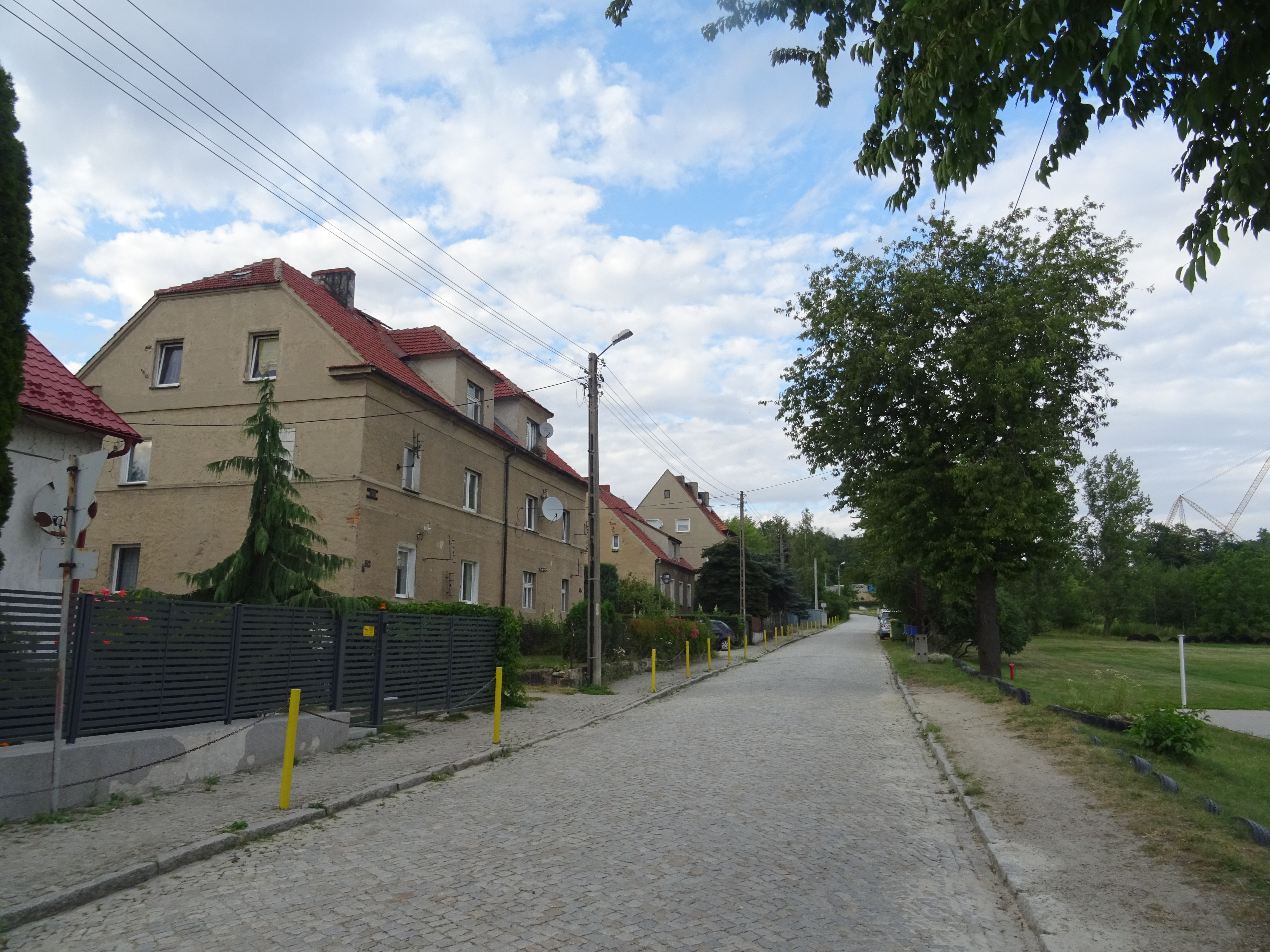 This photograph was created as a part of Wikiexpedition Lower Silesia, a project supported by Wikimedia Poland grant.